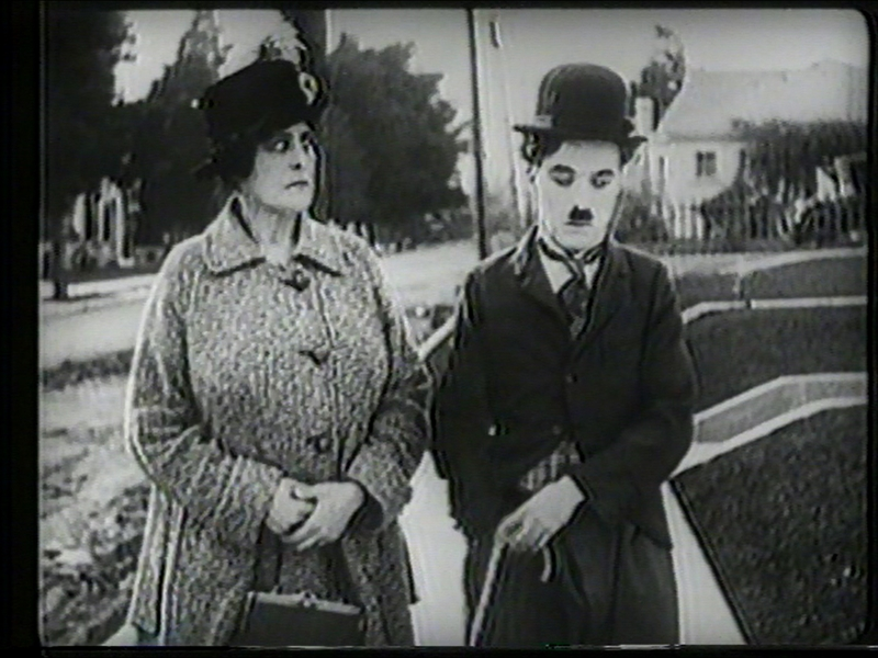 Charlie Chaplin and Phyllis Allen from "Pay Day".